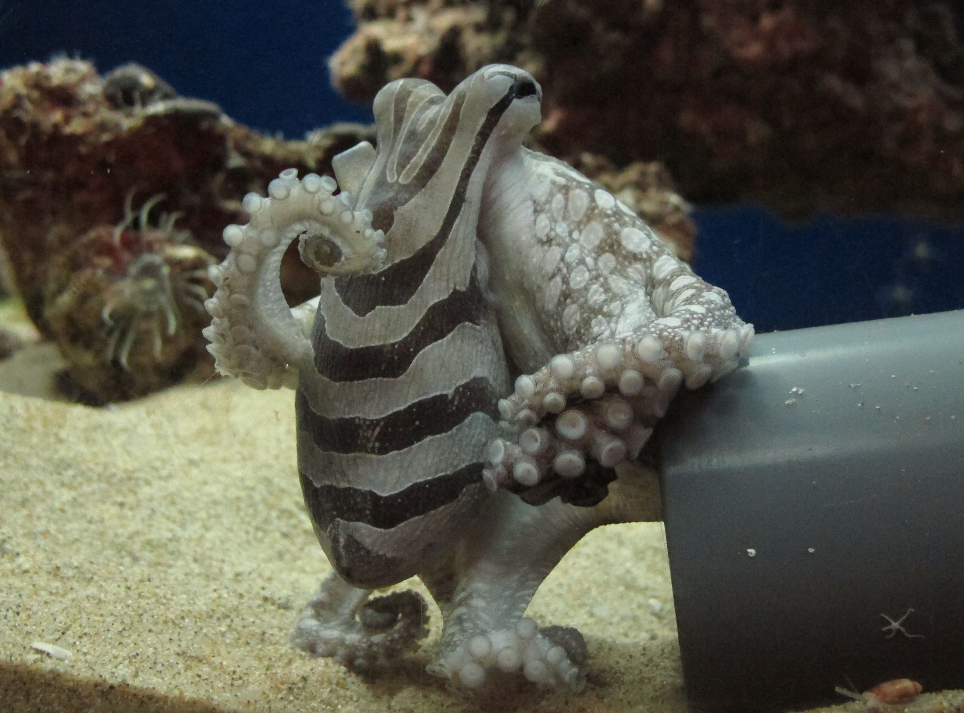 This is an image, taken by Dave Maass, of a Larger Pacific Striped Octopus in an aquarium at the California Academy of Sciences.